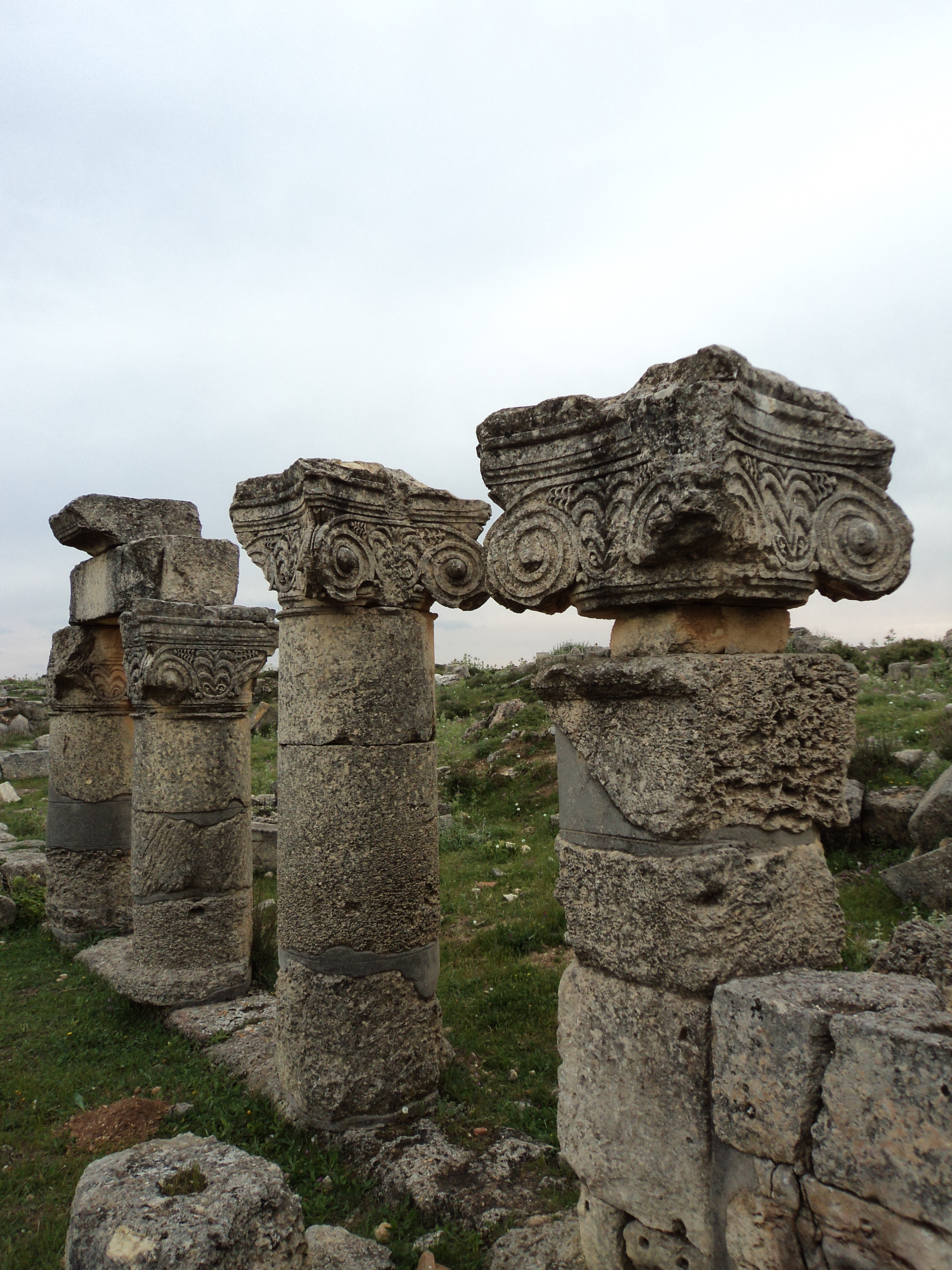 Temple columns Asclepium in Balagrae (Bayda, Libya)